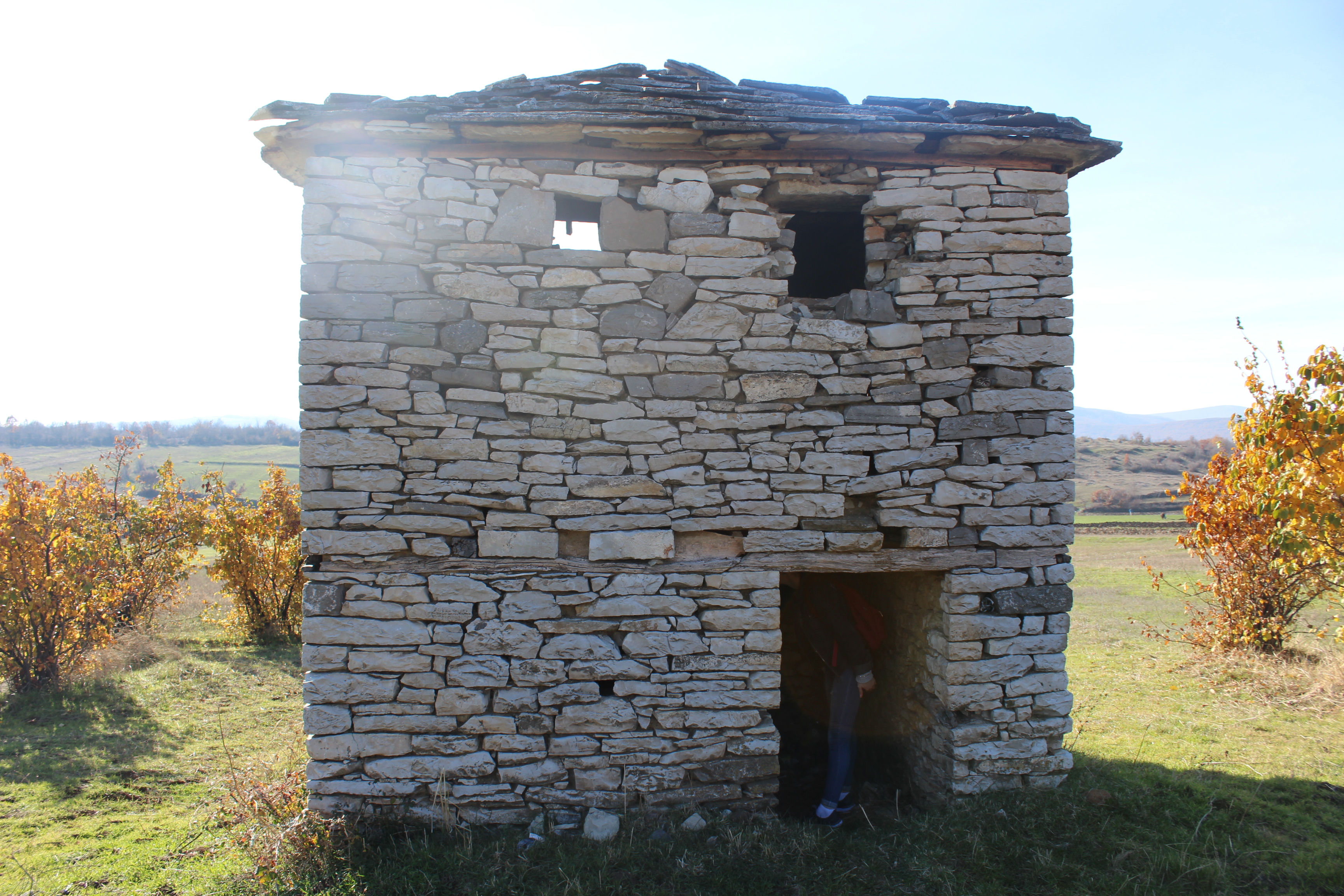 This is the Abandoned house forgotten by the state and people. This is multi functional hose that 100 years ago served for workers of the grape yard in village of Pagarusha could stay during the day and also save the grape yards. Also it had another function during the occupation periods for people who did illegal works like hiding people who were wanted from the regime, they hided books, food and weapons. The house is in the middle of fields and stays alone and unprotected.